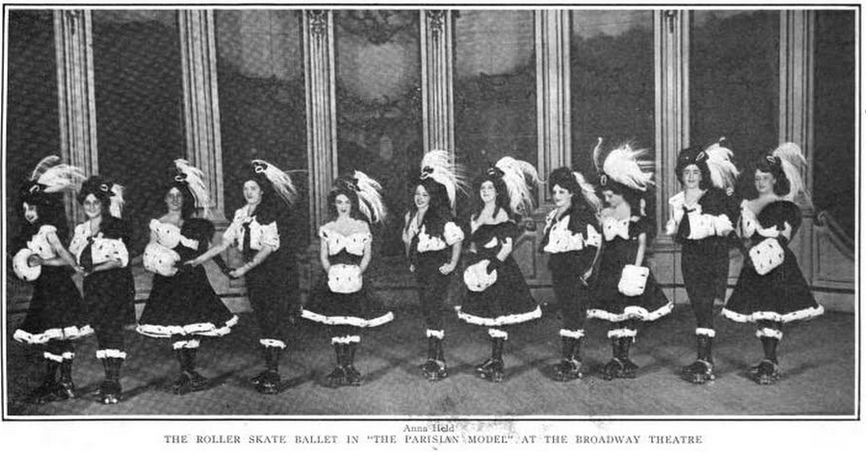 Photograph of the "Roller Skate Ballet" in the 1906 Broadway play "A Parisian Model", appearing in The Theatre magazine, January 1907, p. 28